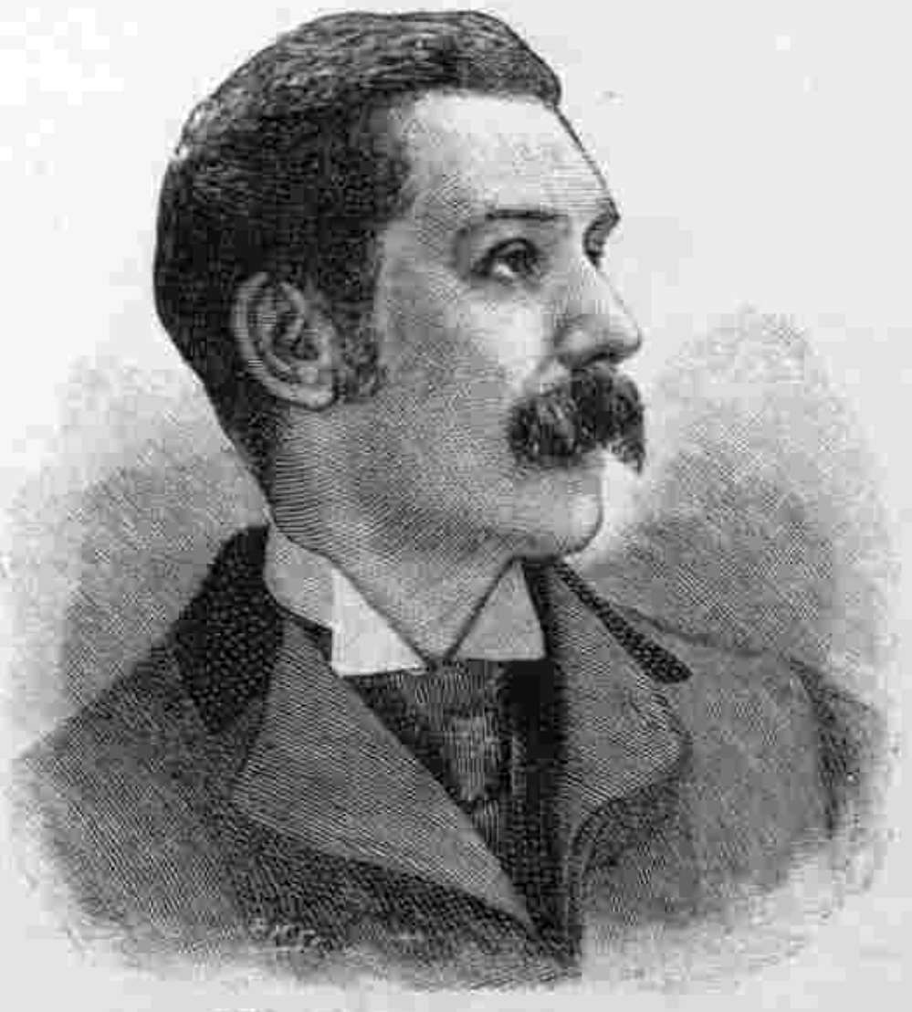 Gordon Browne was an illustrator, in both the illustrated magazines of the day, as well as for many books, especially Boy's Adventure Stories